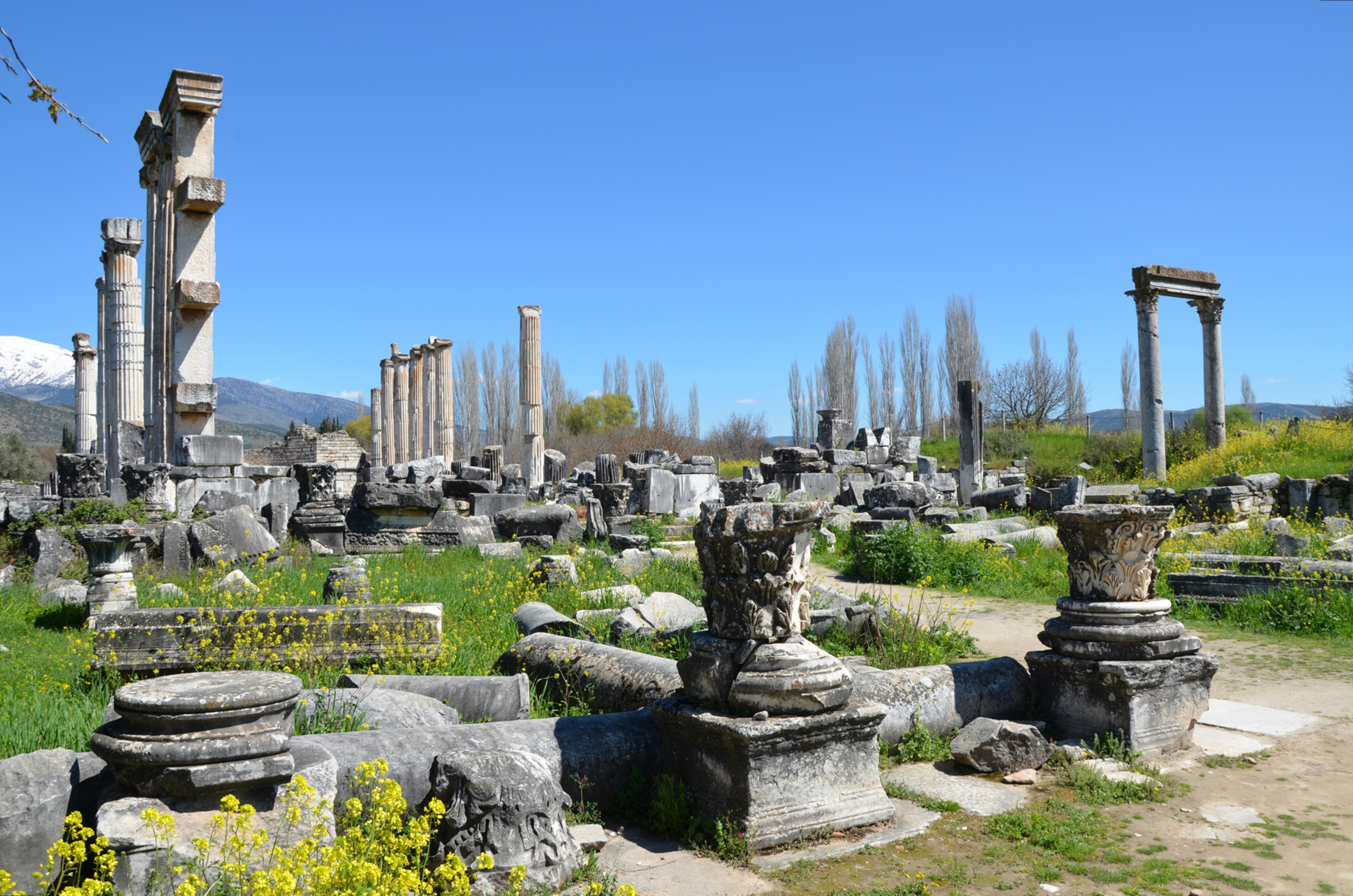 The Temple of Aphrodite, built in the Ionic order in stages during the Roman period (from 1st century BC to 2nd century AD) and later converted into a Christian basilica, Aphrodisias, Caria, Turkey